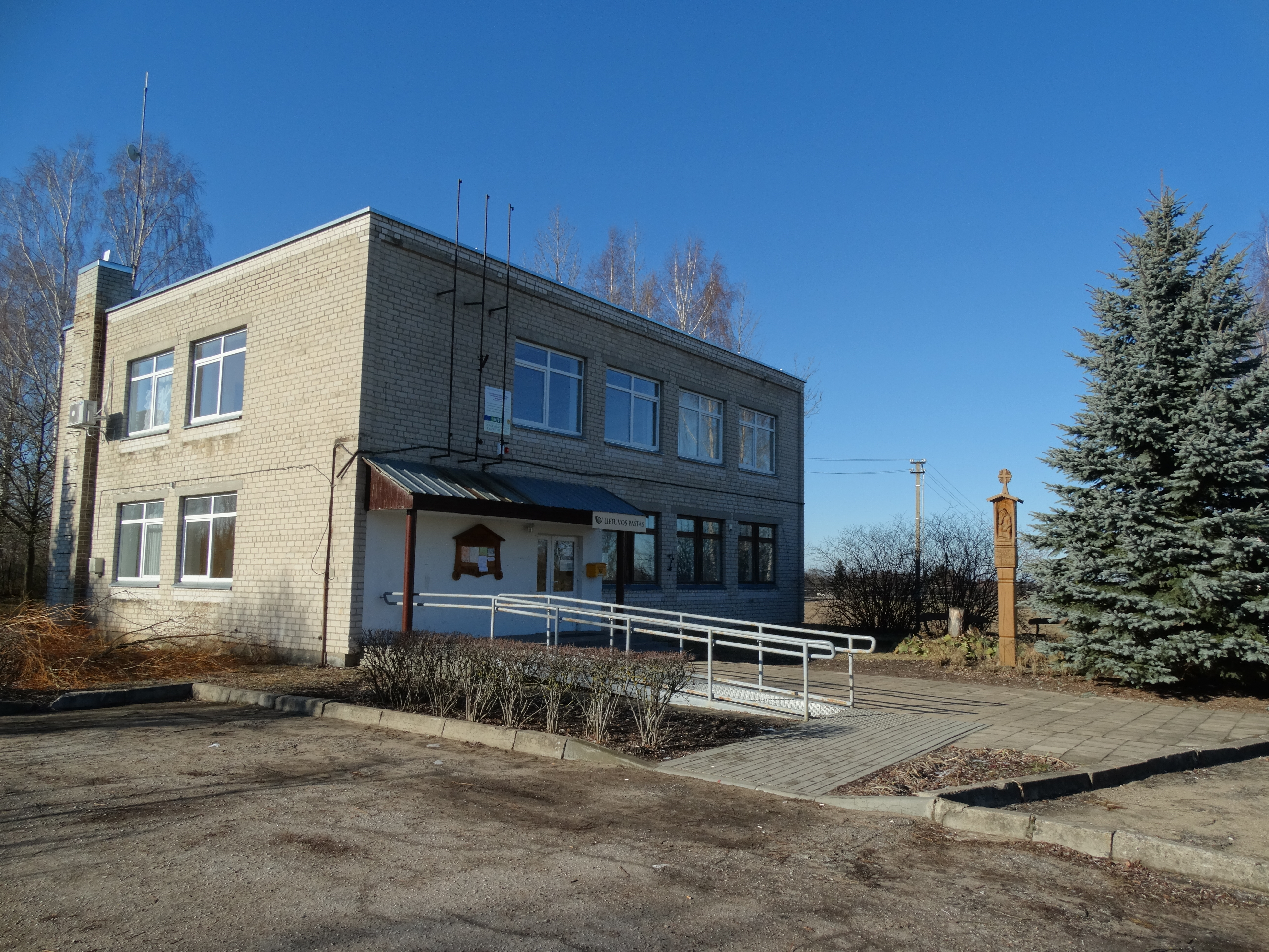 Community House, Vaisodžiai, Alytus district, Lithuania